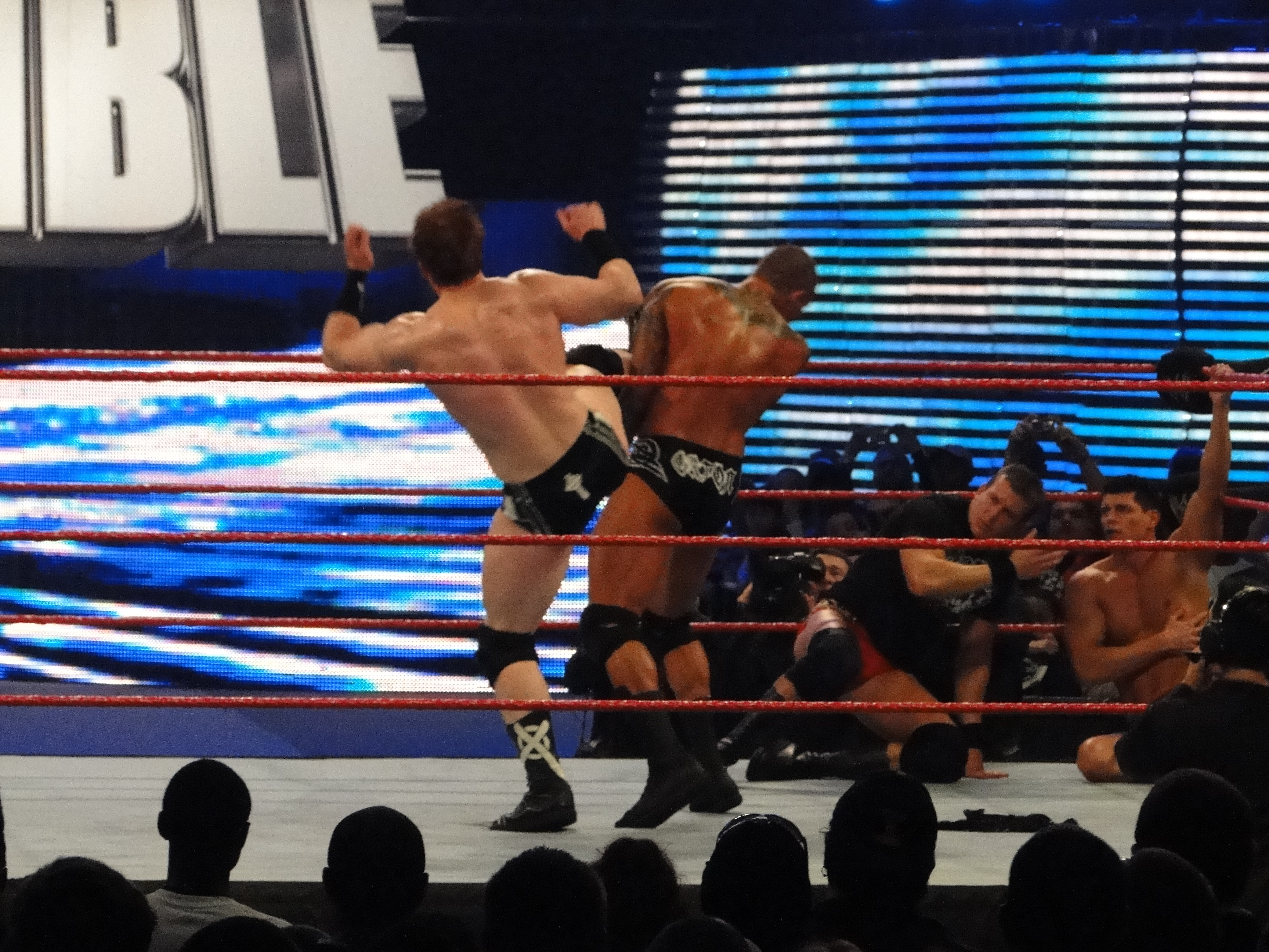 Sheamus performing his bycilce kick on Orton